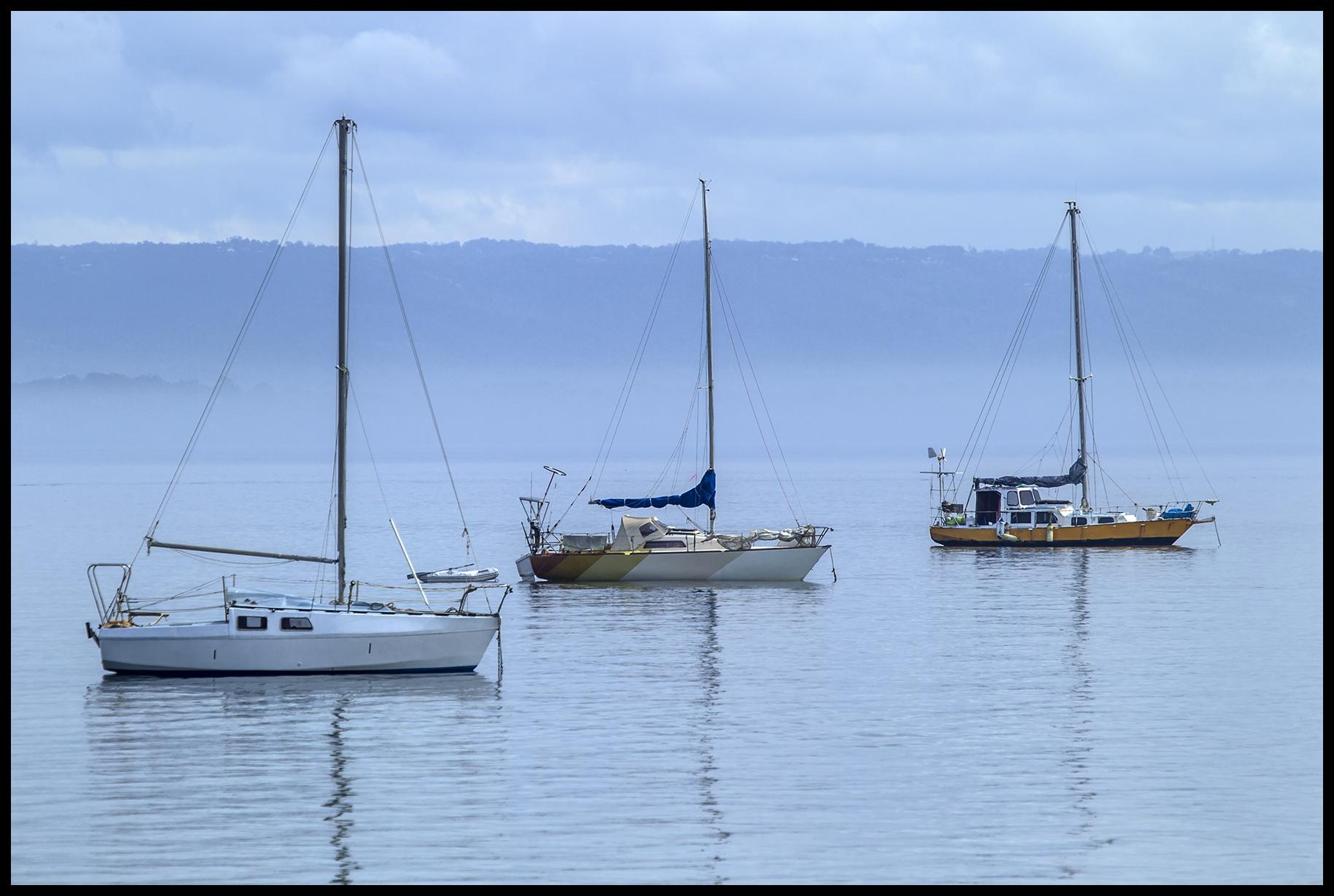 Foggy morning Deception Bay